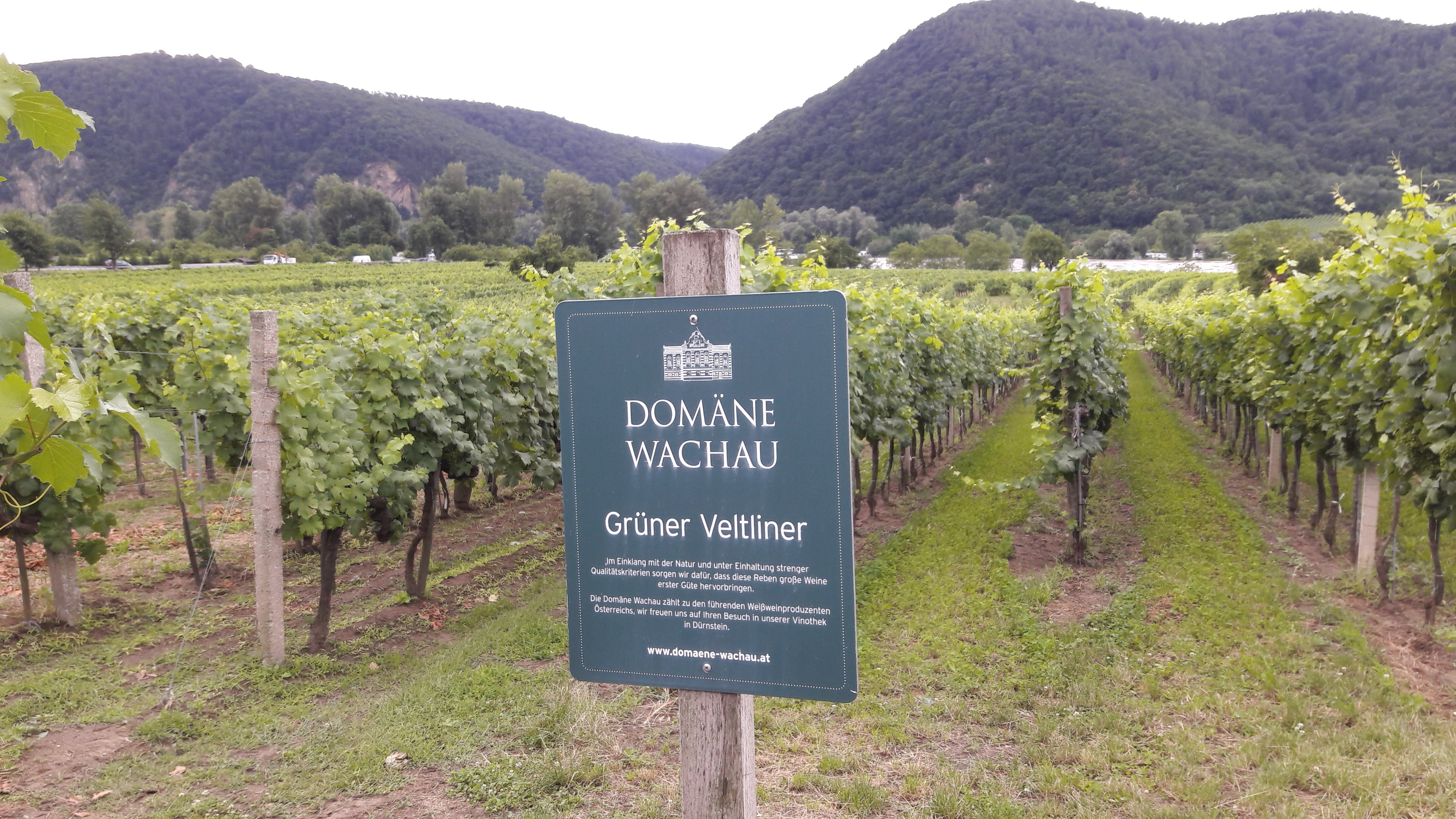 The Wachau valley east of Dürnstein, Austria - background: Rossatzbach, Windstallgraben